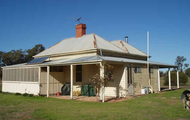 Savernake Station: Overseer's cottage